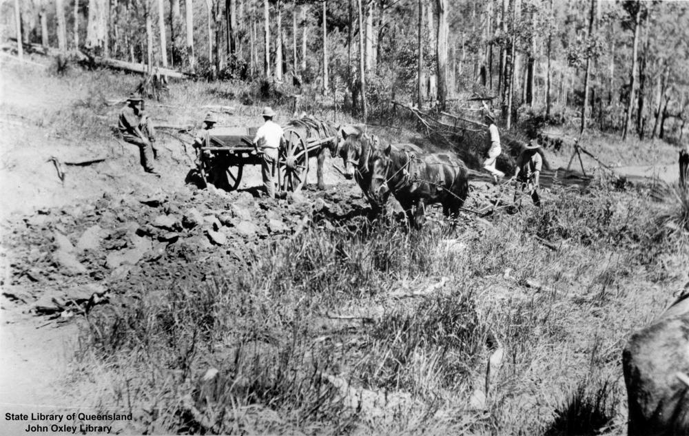 Construction of Main Road, Maroochydore, ca. 1925. Workers unloading a wagon during construction of Main Road, Maroochydore, Queensland. The road base appears to be being worked by a man driving a horse and plough.